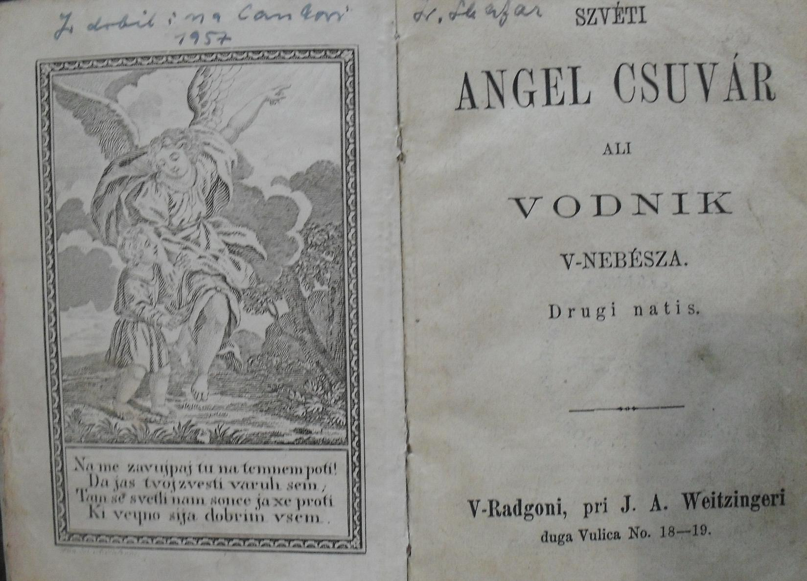 Szvéti Angel Csuvár (Holy Guardian Angel), prekmurian (prekmurščina) prayer-book from 1875, by József Borovnyák. Alternative issue.